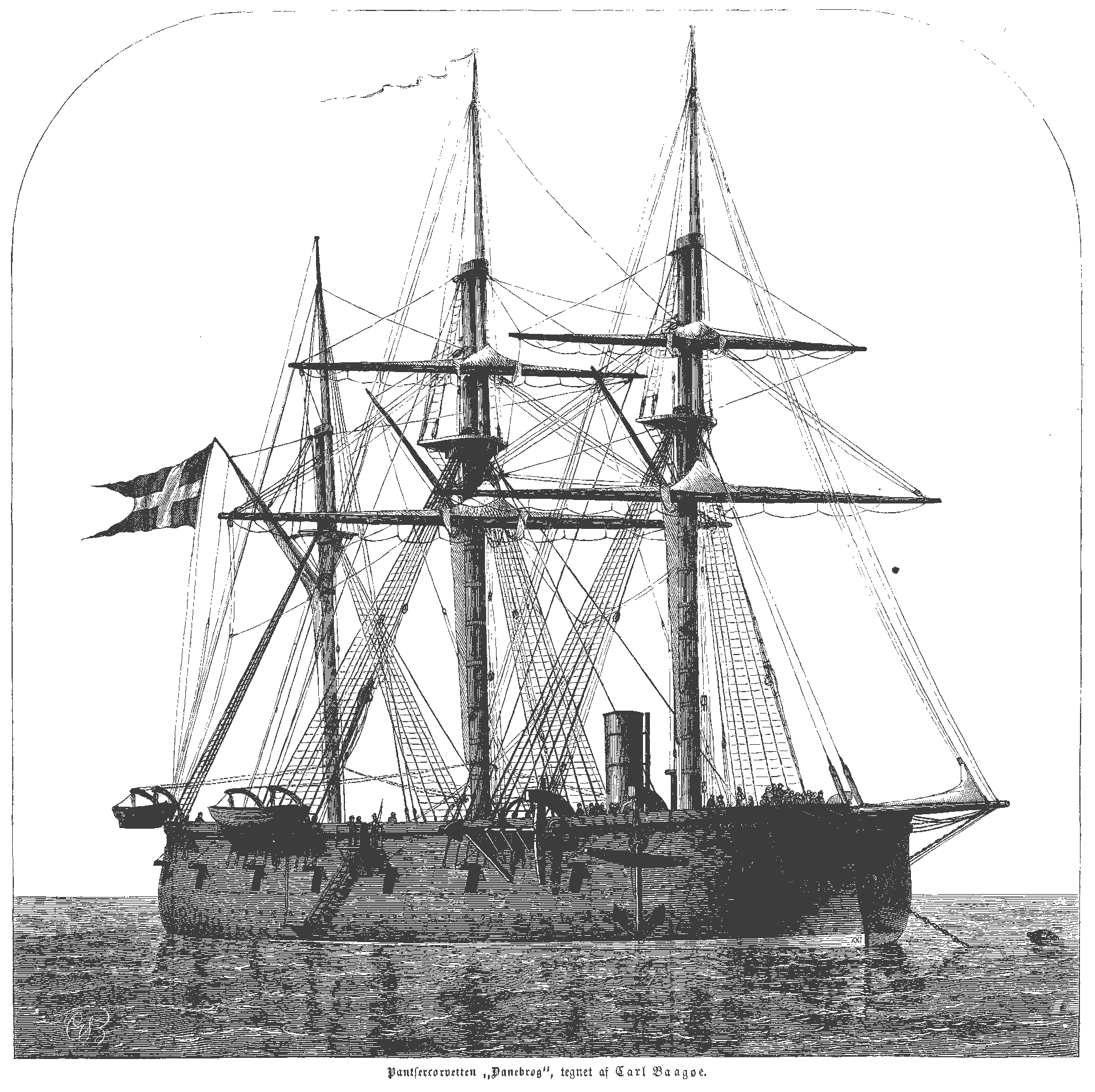 The Danish weekly Illustreret Tidende had an article on April 10, 1864, about the ship of the line Dannebrog, which had finished conversion into an ironclad. The piece was accompanied by this drawing by Carl Baagøe.